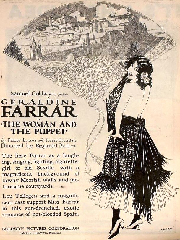 Advertisement for the American film The Woman and the Puppet (1920) with Geraldine Farrar, on page 3415 of the April 17, 1920 Motion Picture News.